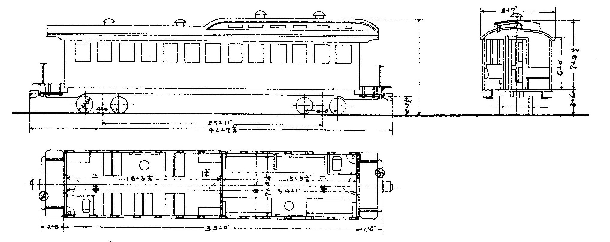 Type drawing of JGR's passenger car Fukoroha5980 (ex. Hokkaido Tanko Railway Nisa-70)